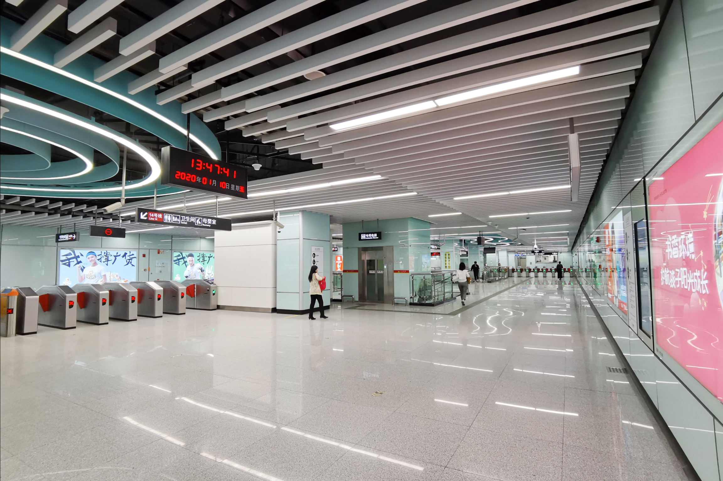 广州地铁夏良站